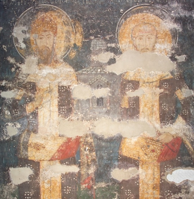 Stefan Dečanski and Dušan with church model, fresco from Visoki Dečani,Serbia.